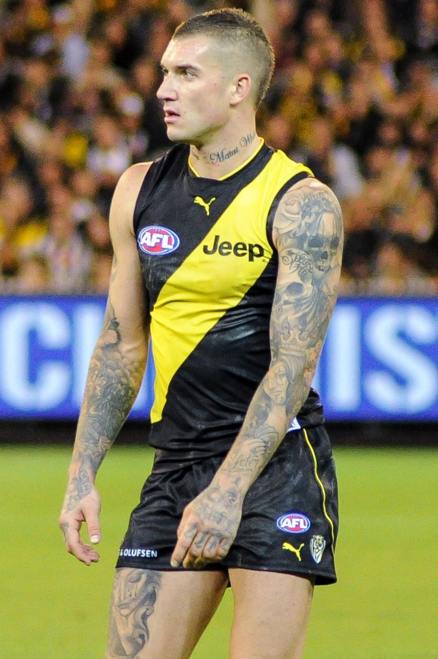 Dustin Martin during the AFL round two match between Richmond and Collingwood on 30 March 2017 at the Melbourne Cricket Ground in Melbourne, Victoria.